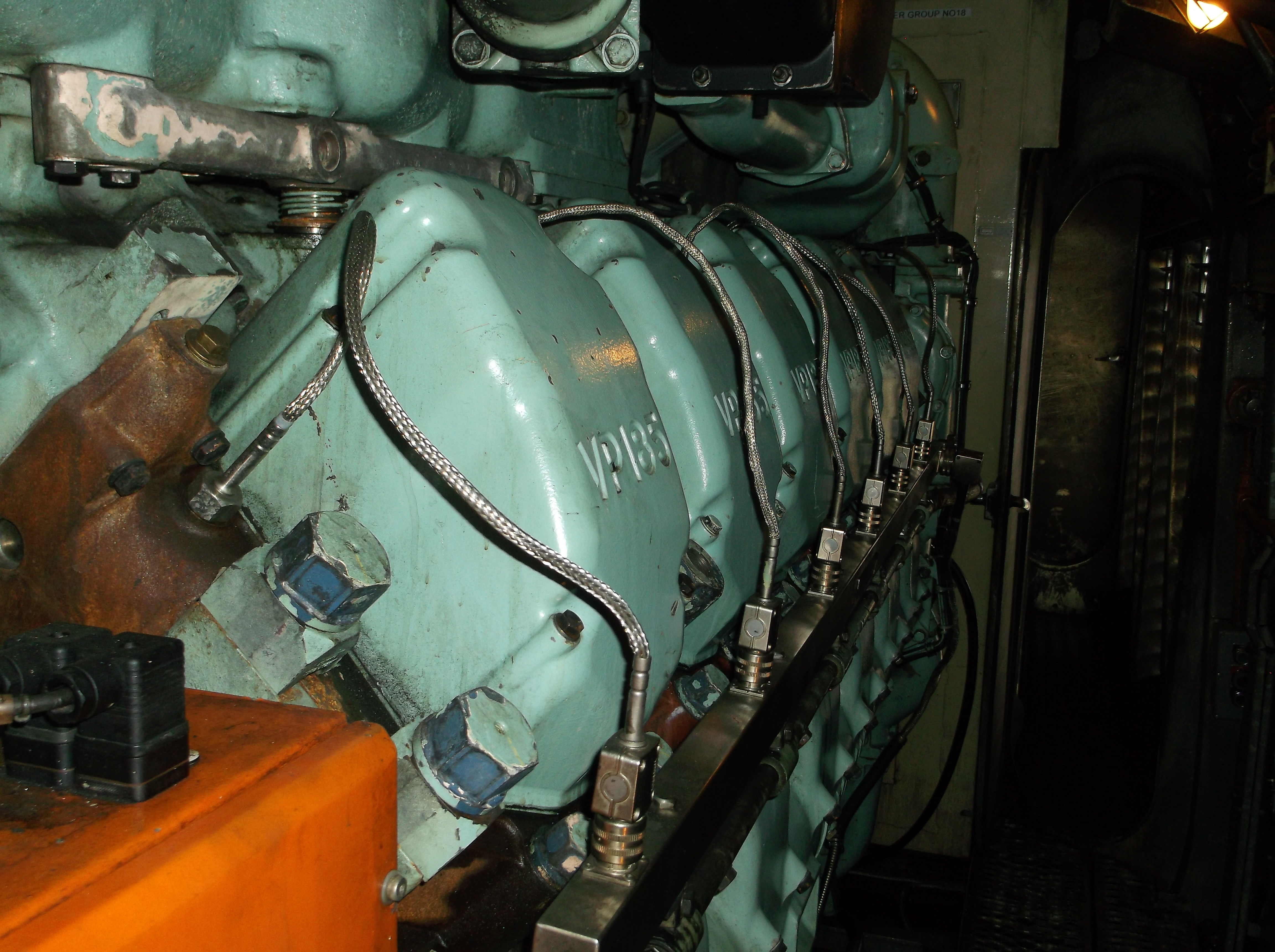 The engine of HST power car British Rail Class 43 no. 43048 "T.C.B. Miller MBE" at the open day a Derby Etches Park depot in September 2014.